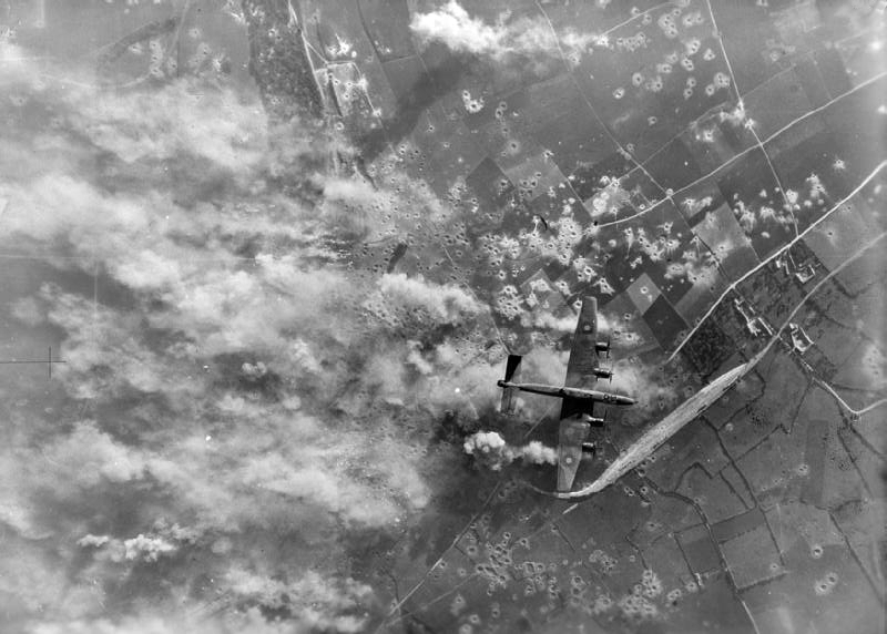 Vertical aerial photograph taken during the daylight attack on the German secret weapon (V3) site at Mimoyecques, near Marquise, France, showing a Handley Page Halifax flying over the target as exploding bombs send smoke and clouds of dust into the air.